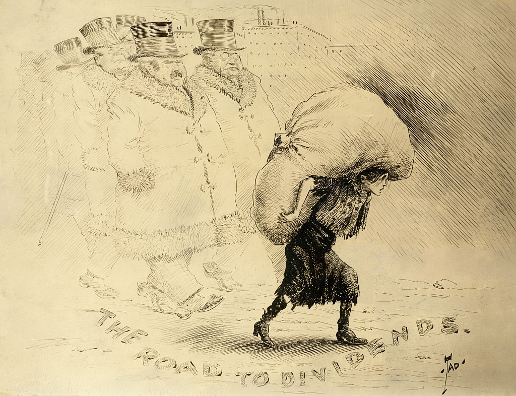 Political cartoon by Tad Dorgan, showing wealthy industrialists marching behind a child laden down with a heavy sack.